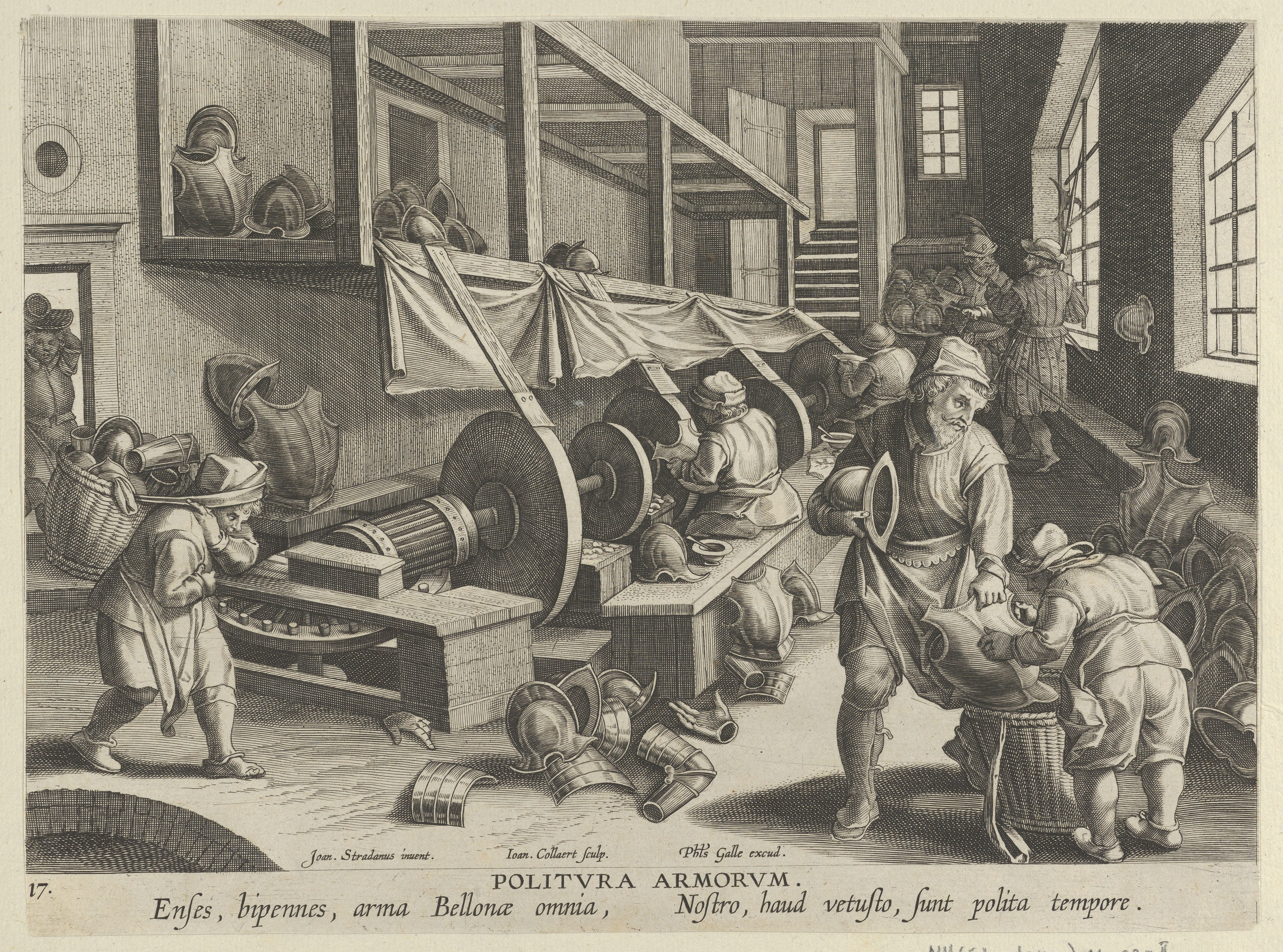 Print; Prints